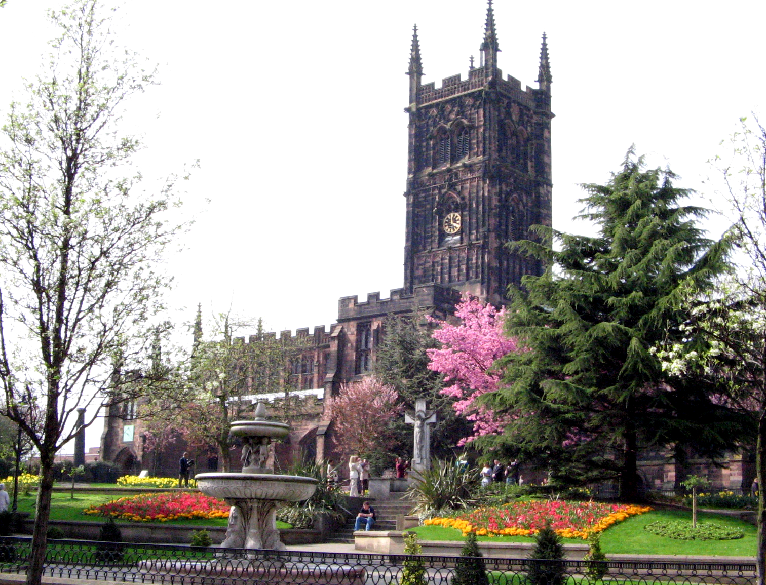 St Peter's Church and gardens in Wolverhampton This work has been released into the public domain by its author, G-Man. This applies worldwide. In some countries this may not be legally possible; if so: G-Man grants anyone the right to use this work for any purpose, without any conditions, unless such conditions are required by law.